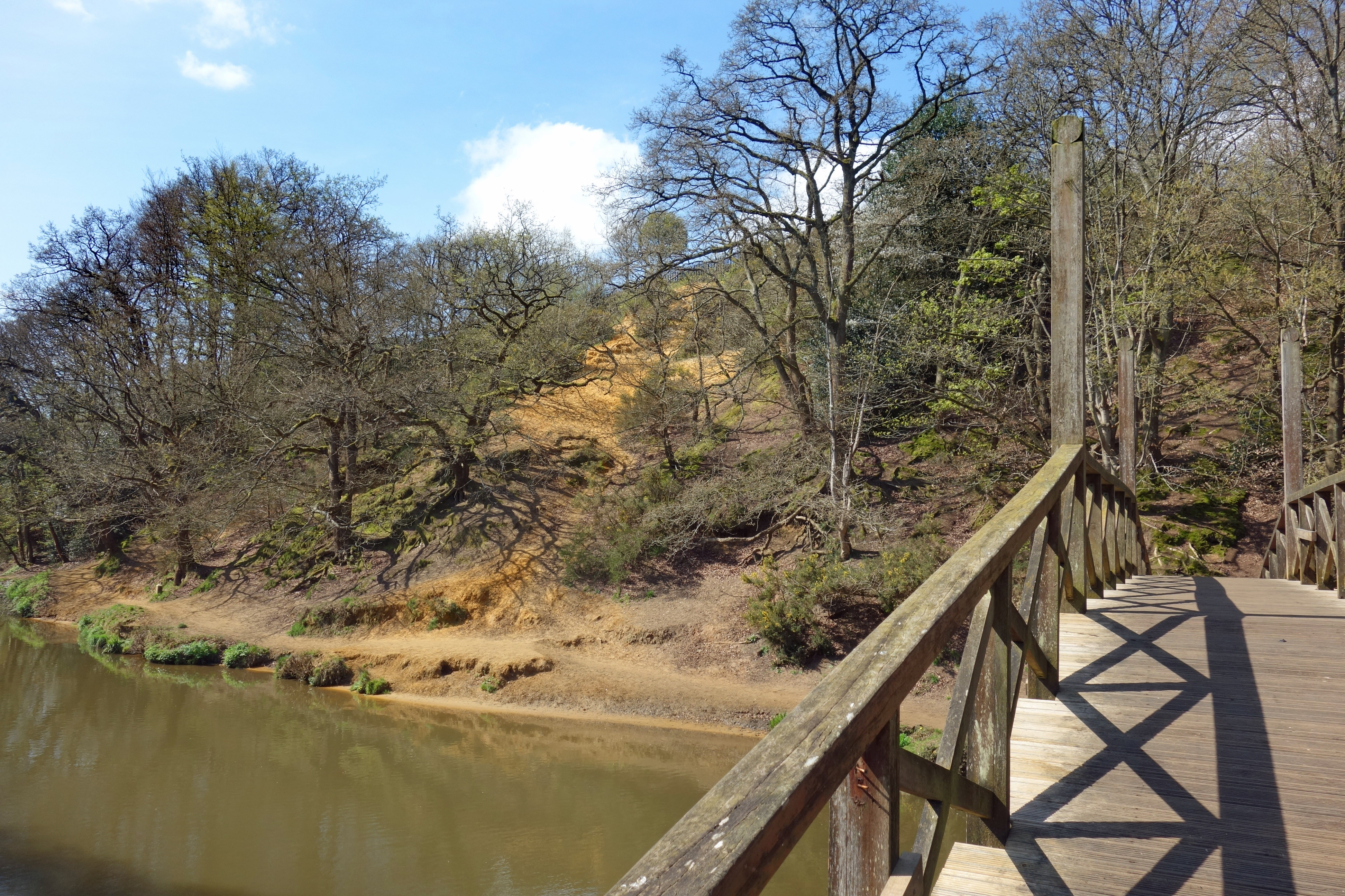 The North Downs Way crossing the River Wey near Shalford in Surrey.